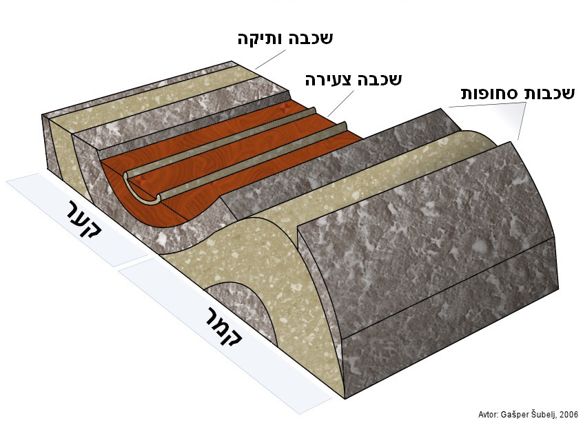 anticline and syncline